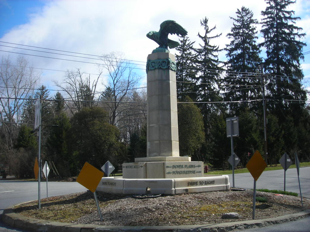 A large monument along New York State Route 343 in Dover Plains, New York